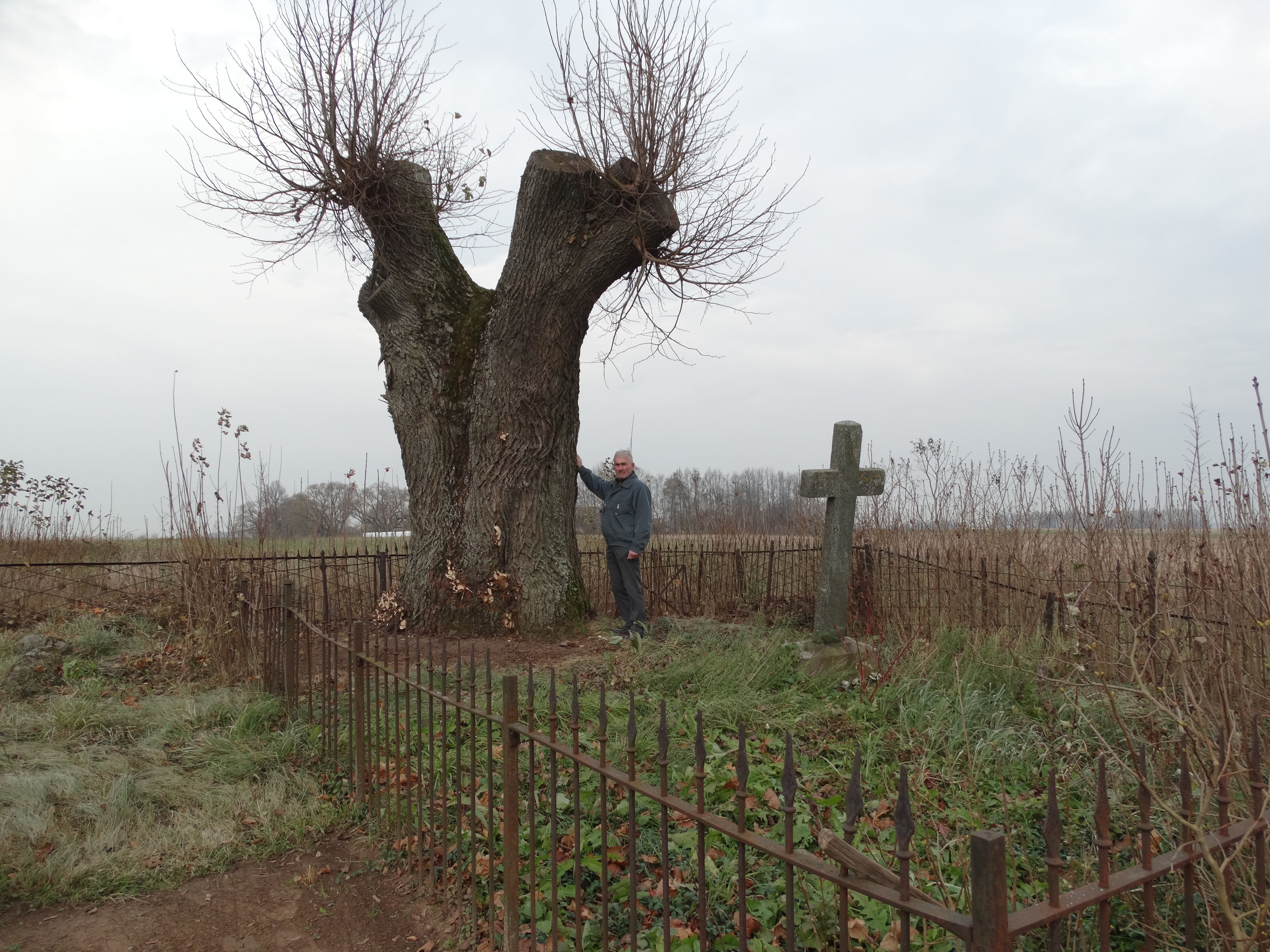 Ustukiai lime tree, Pasvalys district, Lithuania